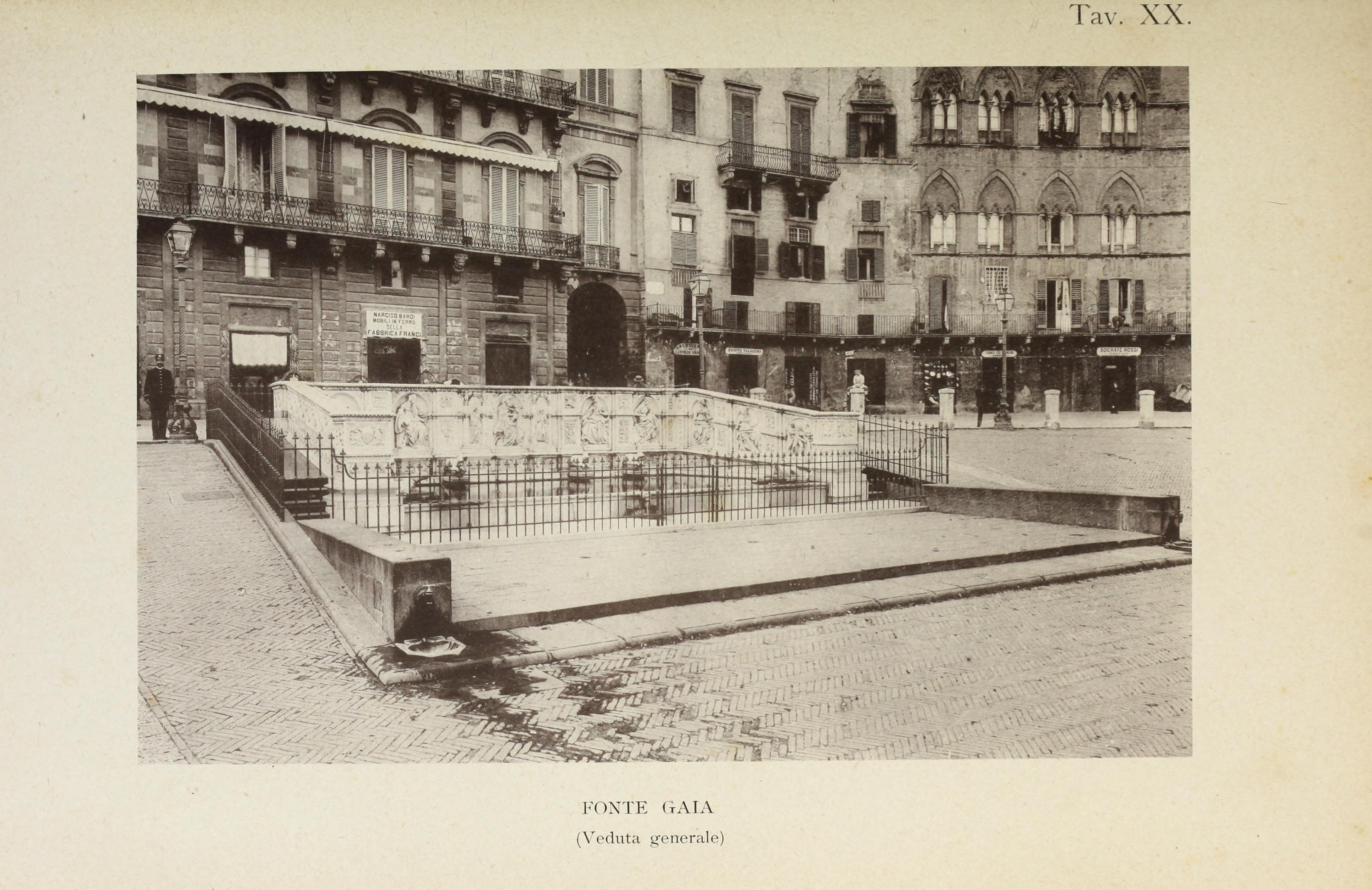 Title: Le fonti di Siena e i loro aquedotti, note storiche dalle origini fino al MDLV Year: 1906 (1900s) Authors: Bargagli Petrucci, Fabio Subjects: Fountains Aqueducts Water-supply Publisher: Siena : Olschki Text Appearing Before Image: ' Text Appearing After Image: '